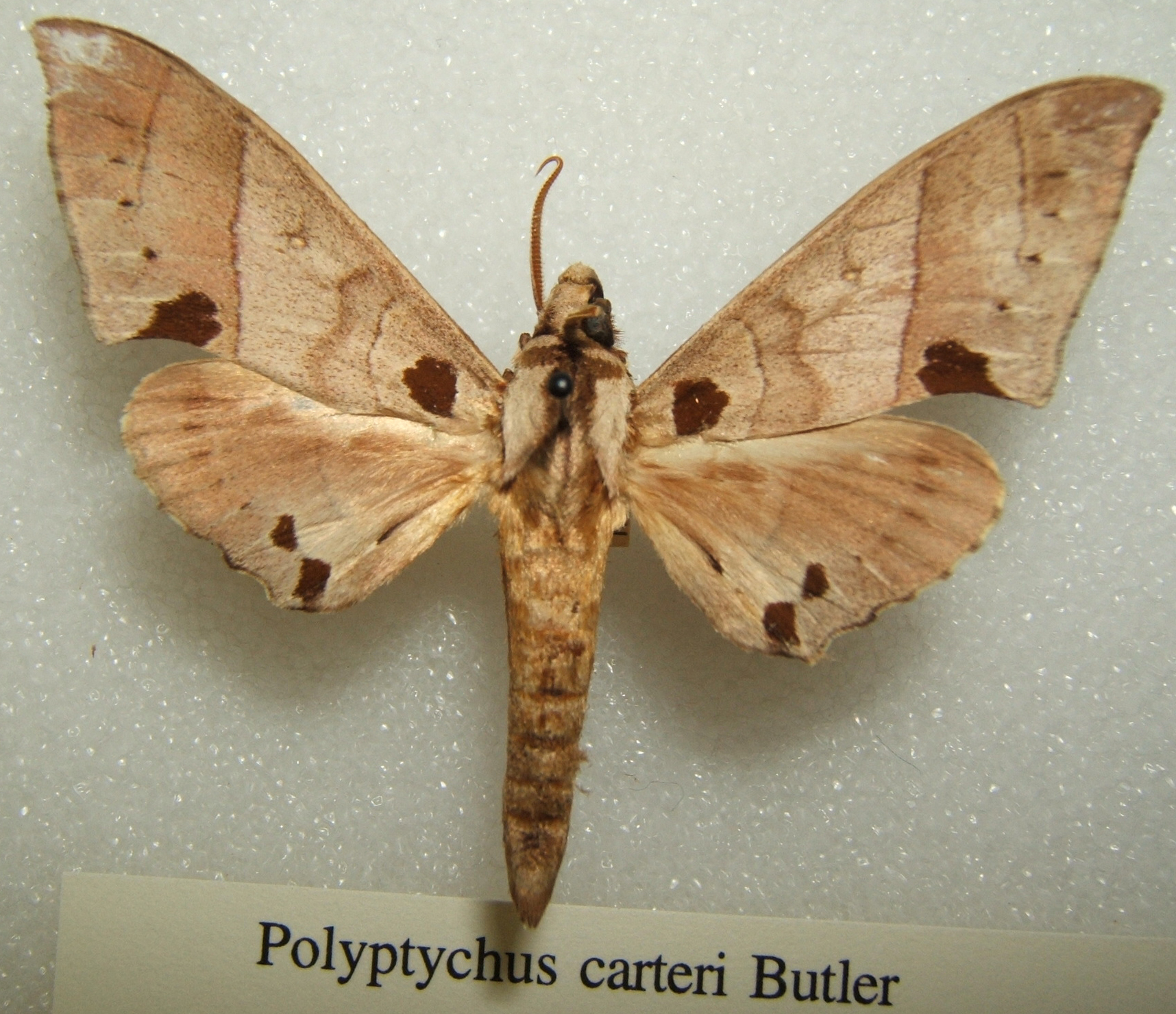 Polyptychus carteri adult taken by Shawn Hanrahan at the Texas A&M University Insect Collection in College Station, Texas.